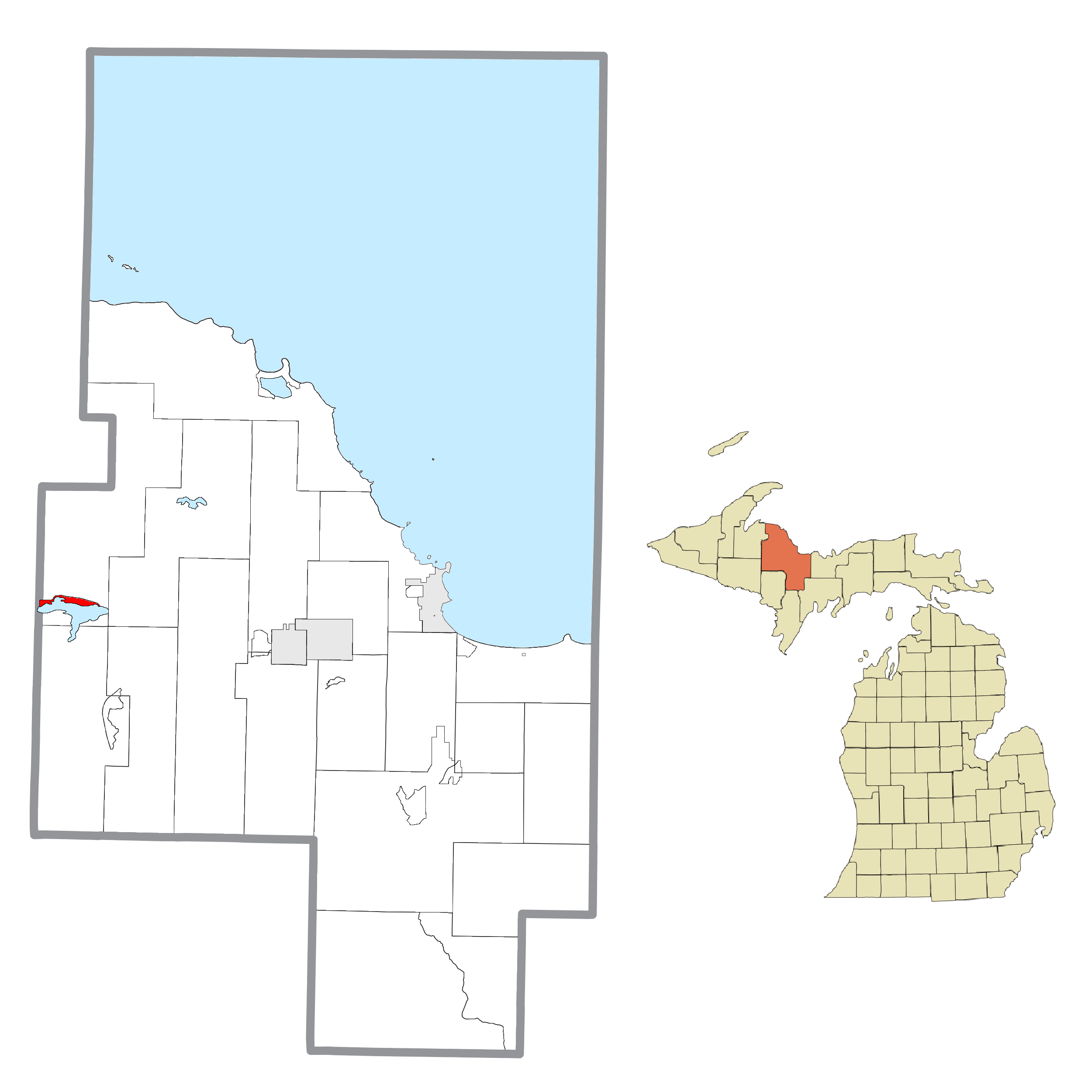 Michigamme, MI